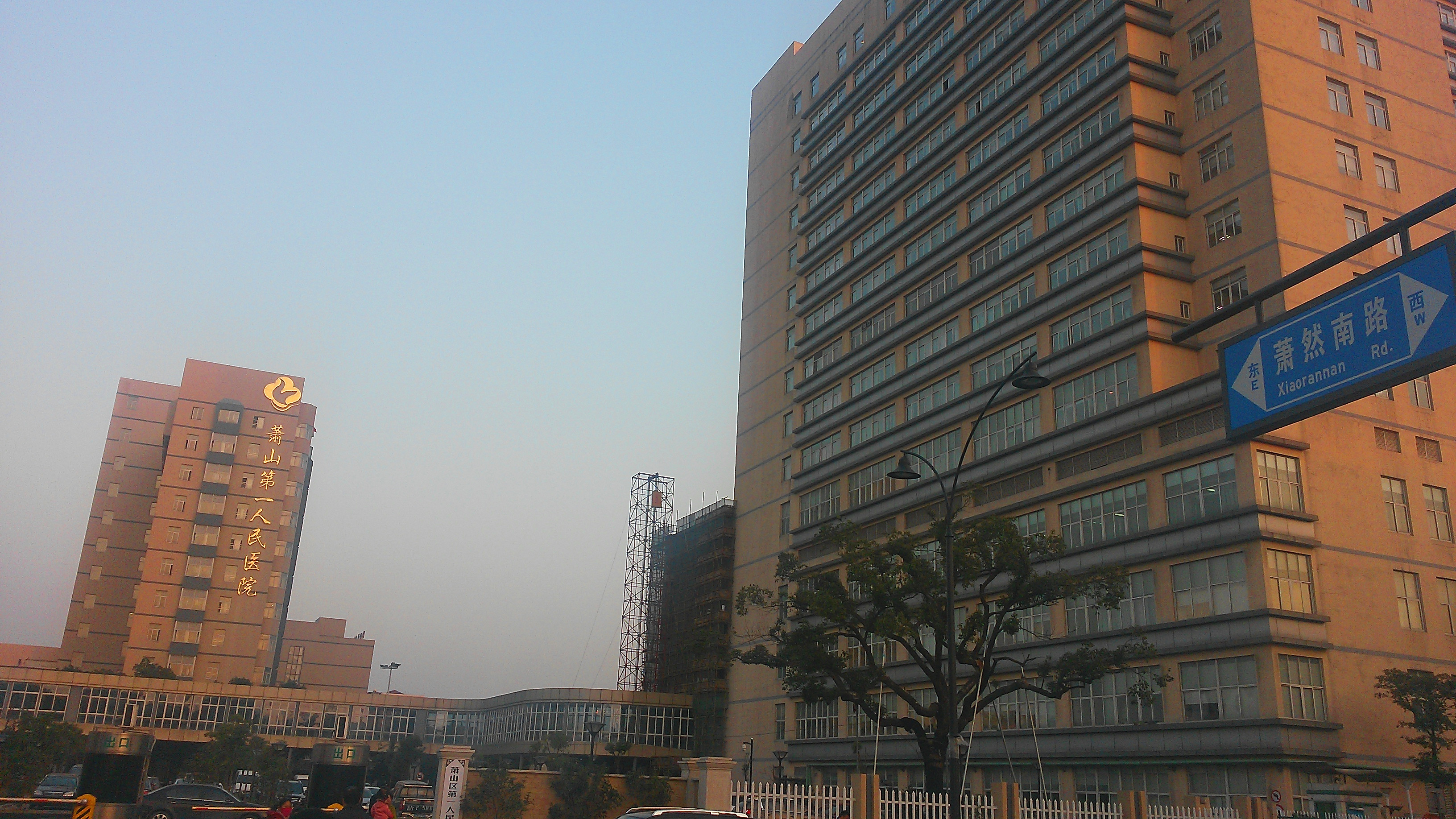 Xiaoshan First People's Hospital